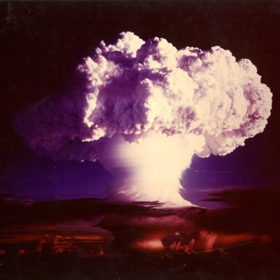 Fermium and einsteinium are produced in small amounts in the biggest man-made explosions, those of hydrogen bombs, from the igniter plutonium and neutrons that are flying around. Fermium also can be made in labs, however the highly radioactive metal has no use outside of basic research. The most stable isotope has a half-life of 100 days. Fermium was named after Enrico Fermi, who had nothing to do with this element, but who was involved in the construction of the first atomic bomb. Fermium decays to californium.